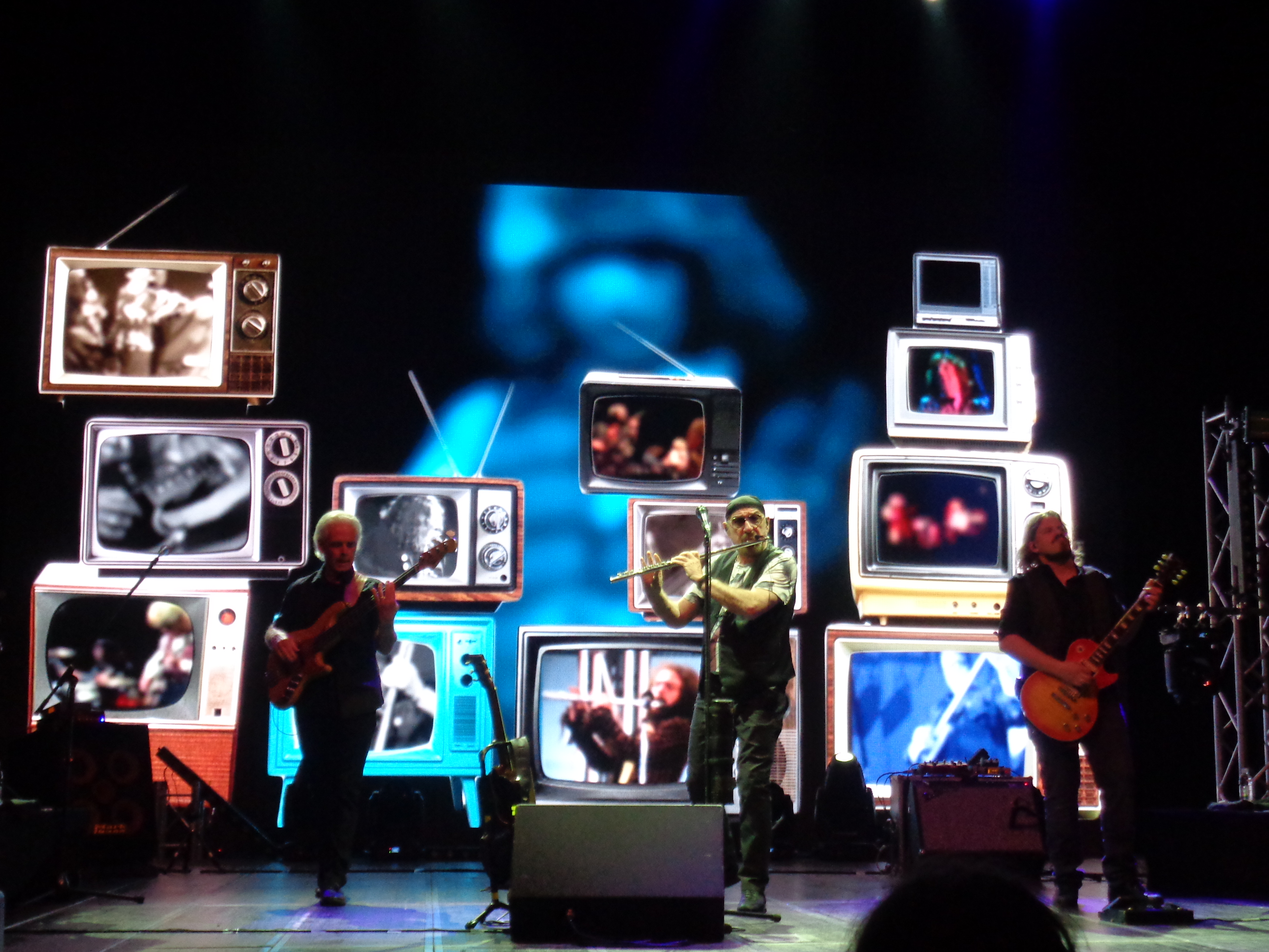 Jethro Tull concert in Zagreb, Croatia, 13.10.2018.